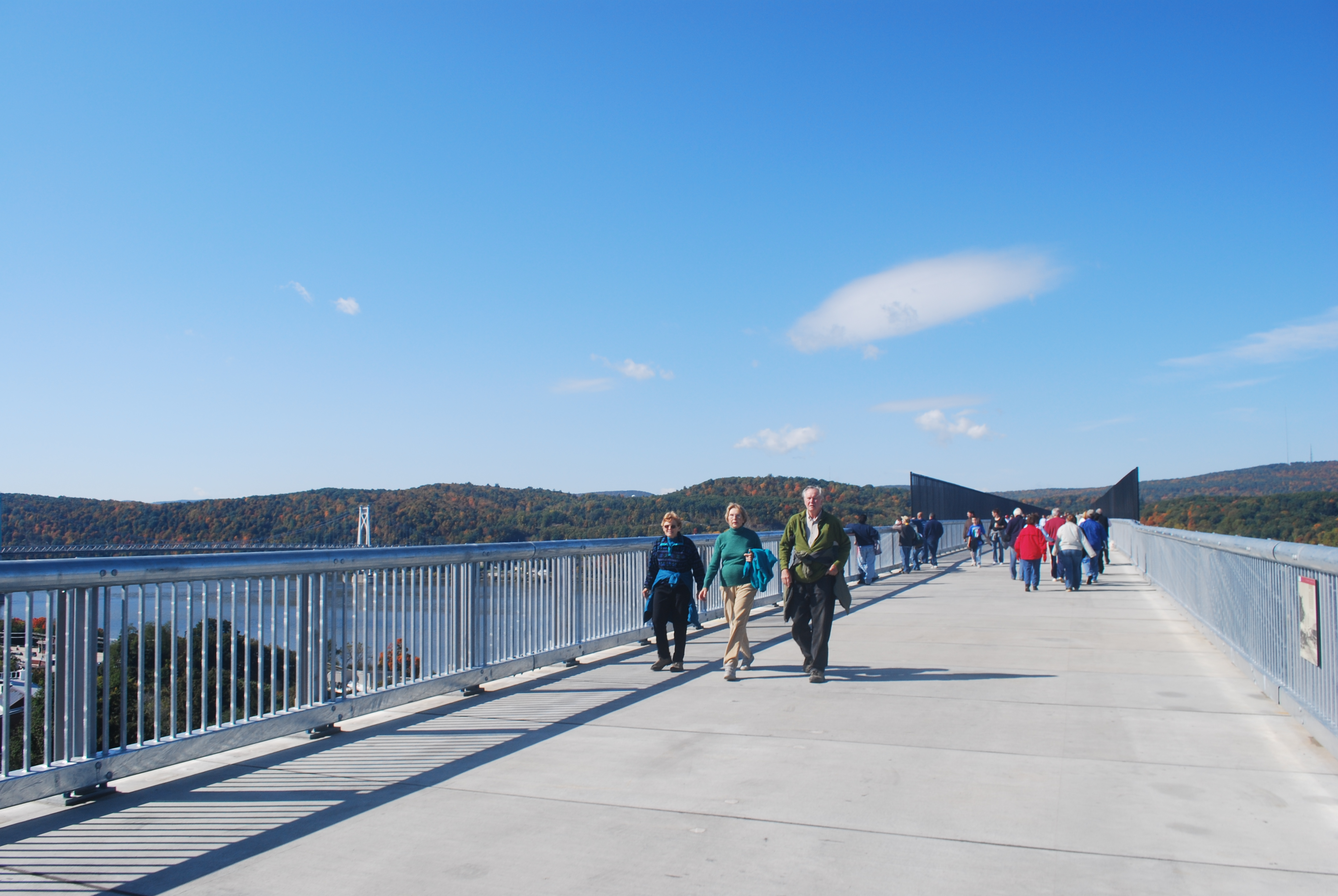 Walkway Over the Hudson, a foot-bridge over the Hudson River, New York, USA